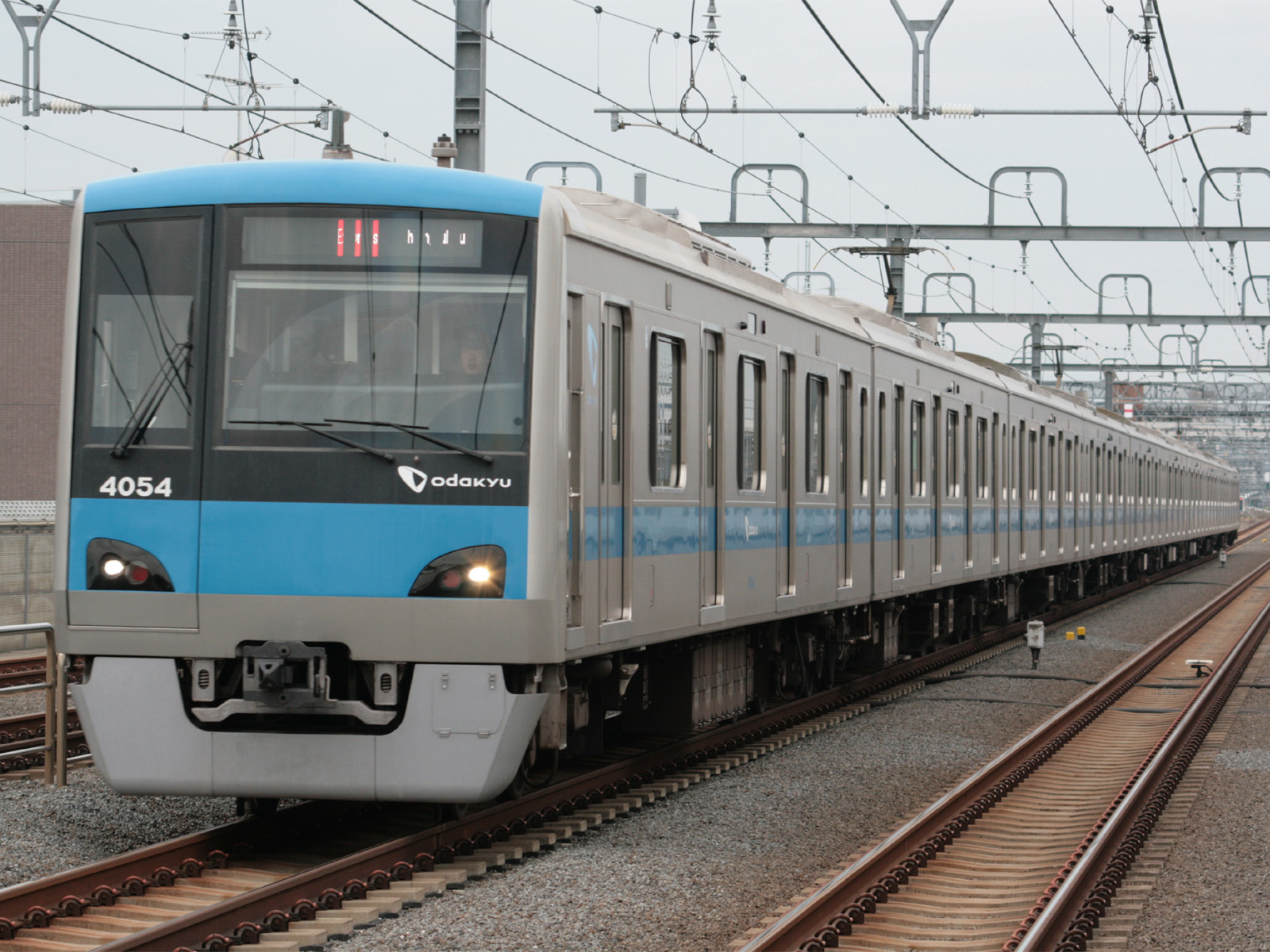 Odakyu Electric Railway's commuter train 4000 Series.